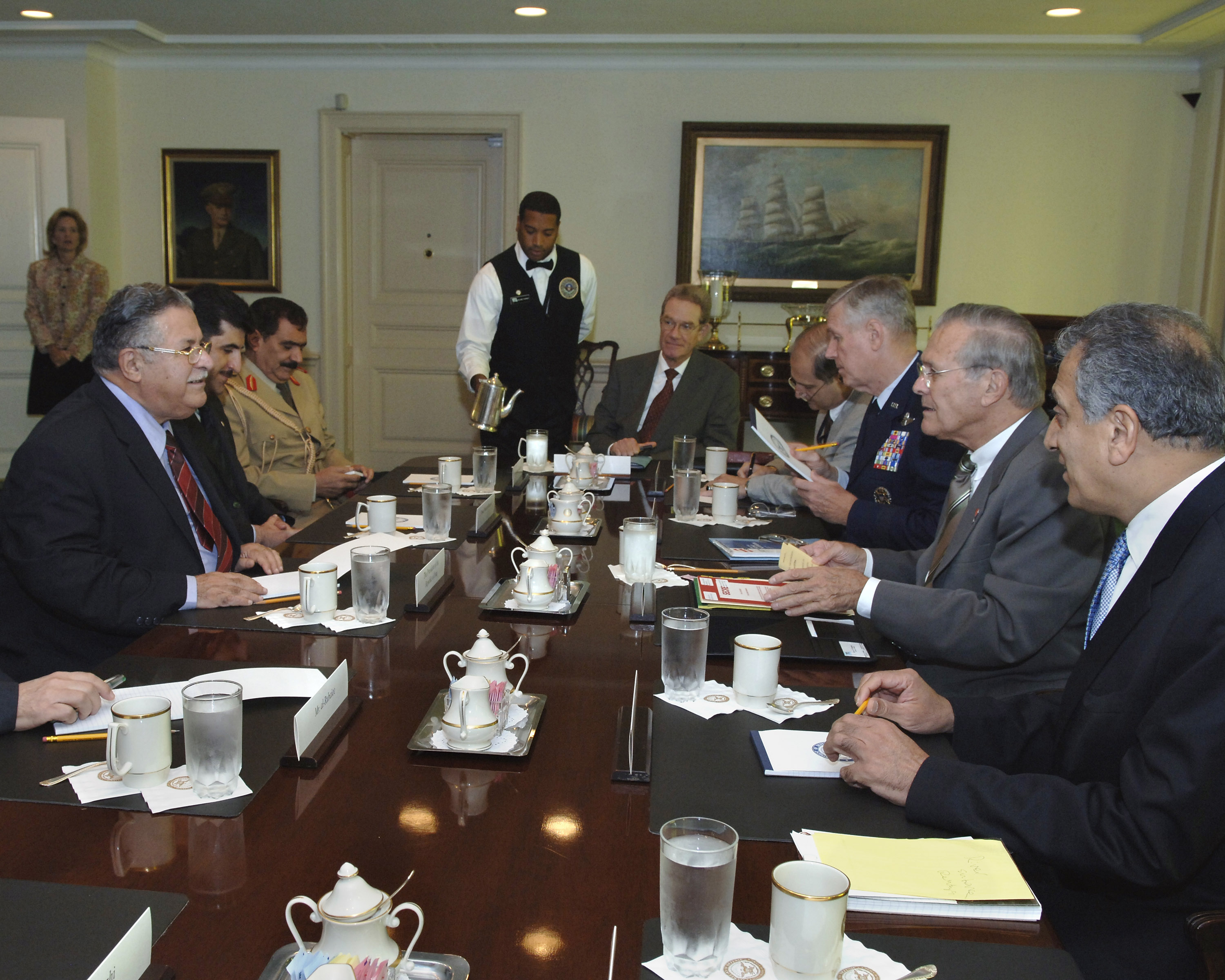 Iraqi President Jalal Talabani (left) meets with Secretary of Defense Donald H. Rumsfeld (2nd from right) in his Pentagon office suite on Sept. 9, 2005. Talabani, Rumsfeld and their senior advisors are meeting to discuss defense issues of mutual interest. Seated left to right: Talabani, Prime Minister Kurdistan Regional Government Nechirban Barzani, Military Aide to the President Lt. Gen. Wafiq al Samarajee, Assistant Secretary of Defense International Security Affairs Peter W. Rodman, Under Secretary of Defense for Policy Eric Edelman, Chairman of the Joint Chiefs of Staff Gen. Richard B. Meyers, U.S. Air Force, Rumsfeld, U.S. Ambassador to Iraq Zalmay Khalilzad.